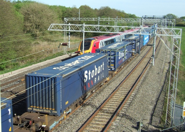 Eddie Stobart freight train on the West Coast mainline